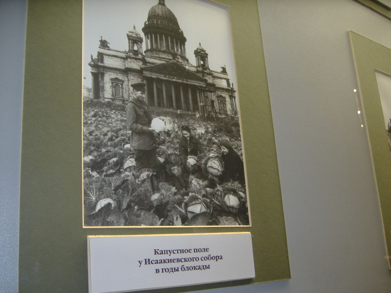 St Isaac's Square during the war was a cabbage patch